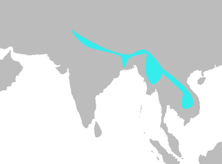 Distribution Map of Gyps tenuirostris